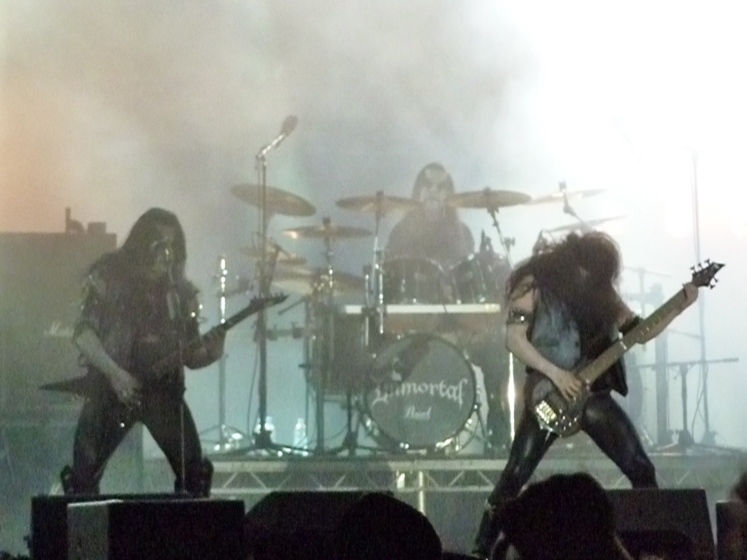 Immortal live at Bloodstock festival in 2010.